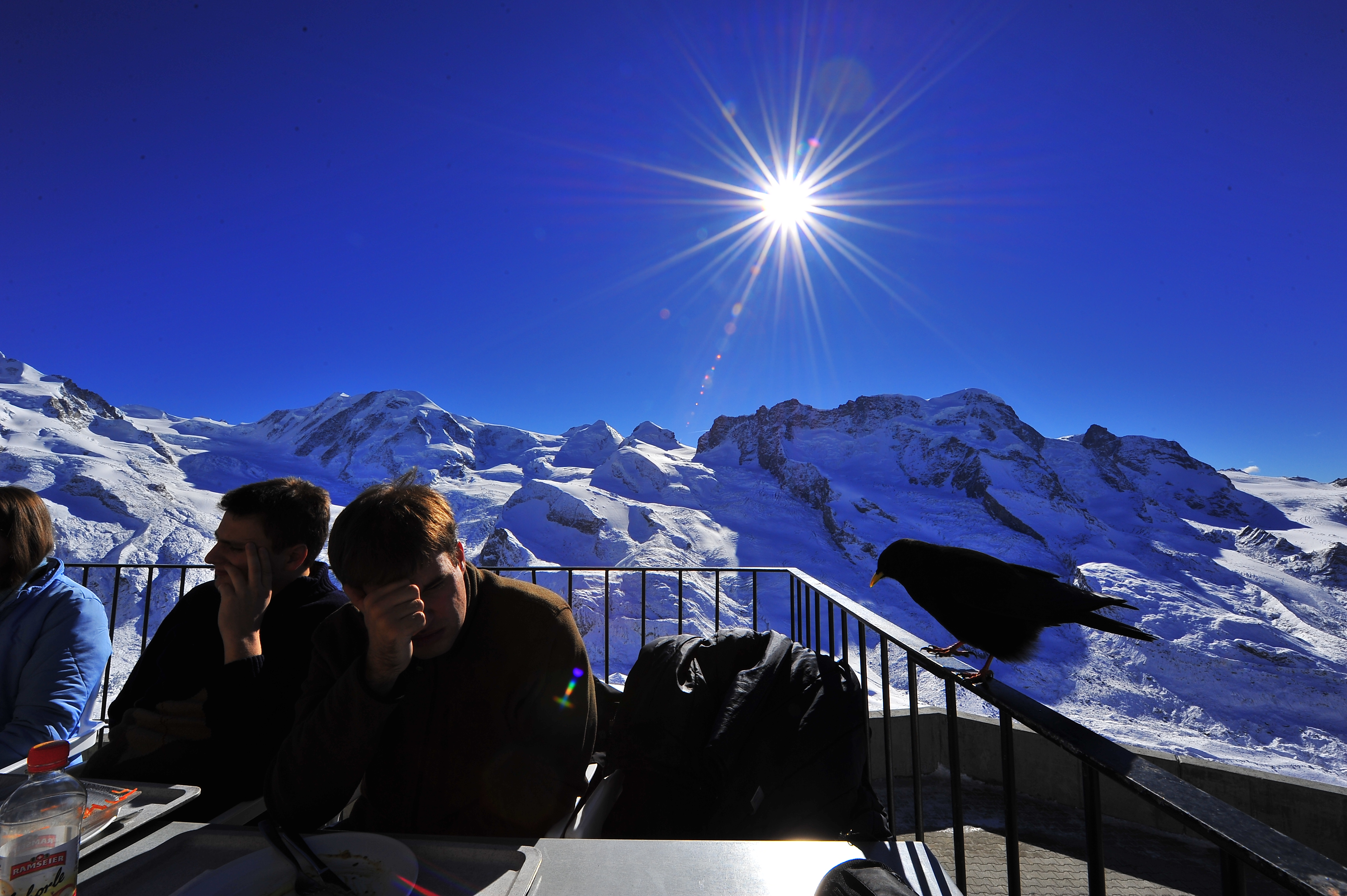 Vistors sitting at tables on Gornergrat Observatory, Switzerland. An Alpine Chough is perching on a railing probably looking for food.